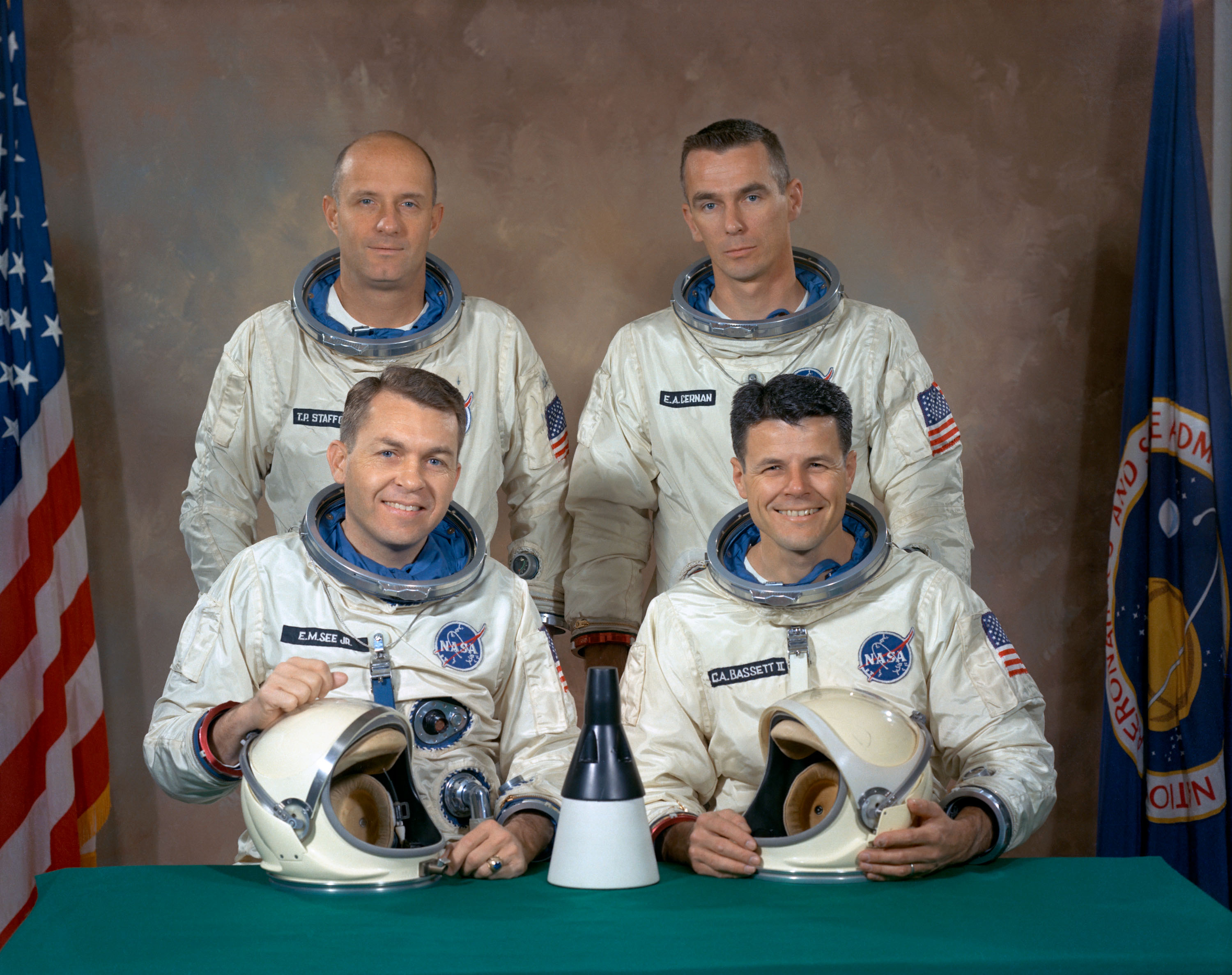 Portrait of the Gemini 9 prime and backup crews. Seated are the Prime crew consisting of Astronauts Elliot M. See Jr. (left), command pilot, and Charles A. Bassett II, pilot. Standing are the backup crew consisting of Astronauts Thomas P. Stafford (left), command pilot, and Eugene A. Cernan, pilot. Both crews are in space suits with their helmets on the table in front of them.